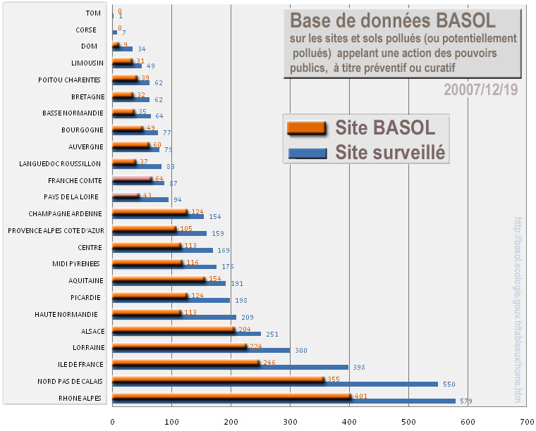 official data about Polluted soils (or potentialy polluted soil) by industrial process in France, by regions (data : End of 2007, from Ministery of Environment)